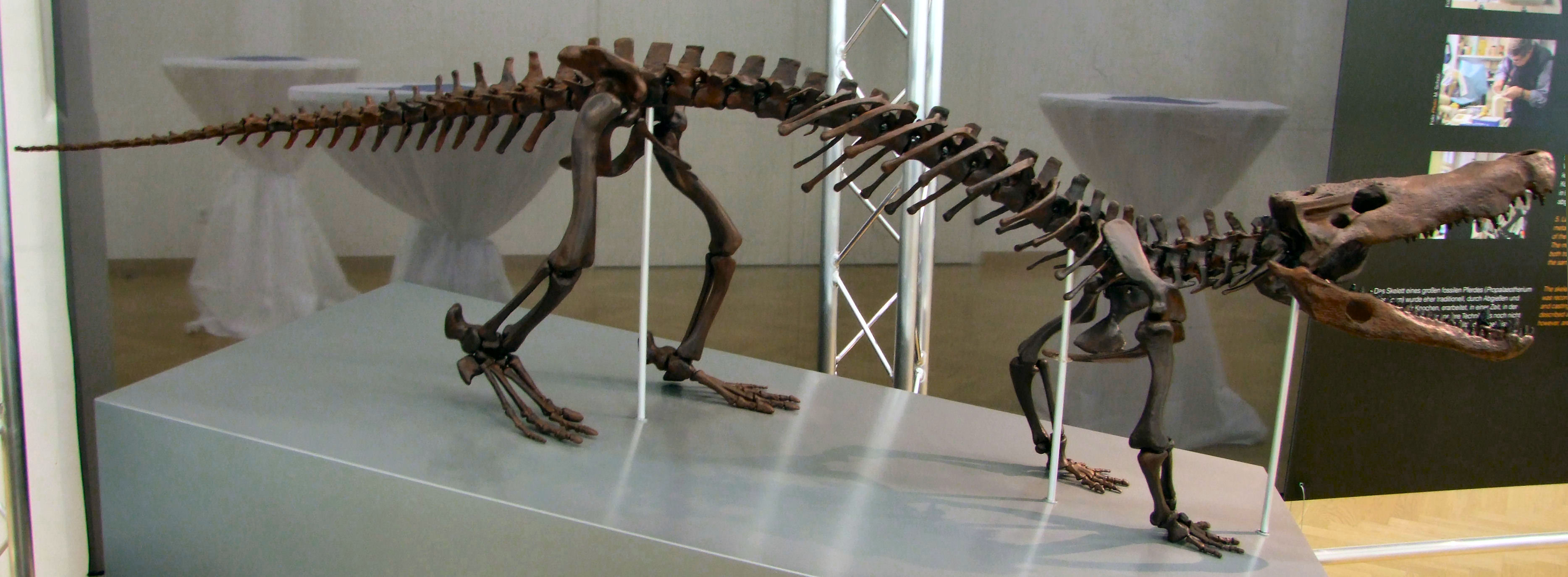 Skeletal reconstruction of Boverisuchus magnifrons from the Geiseltal Lagerstätte, pictured in the exhibition: Graining ground: Horse hunting crocodiles and giant birds from 6th of march to 29th of may 2015 in Halle/Saale